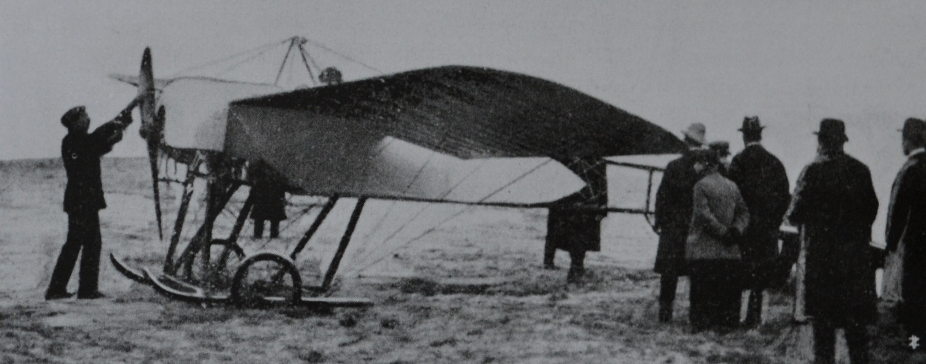 Slavorosoff's Caproni Ca.16 in Taliedo, Milan, Italy, before setting off for the Milan-Rome raid, 26 February 1913.